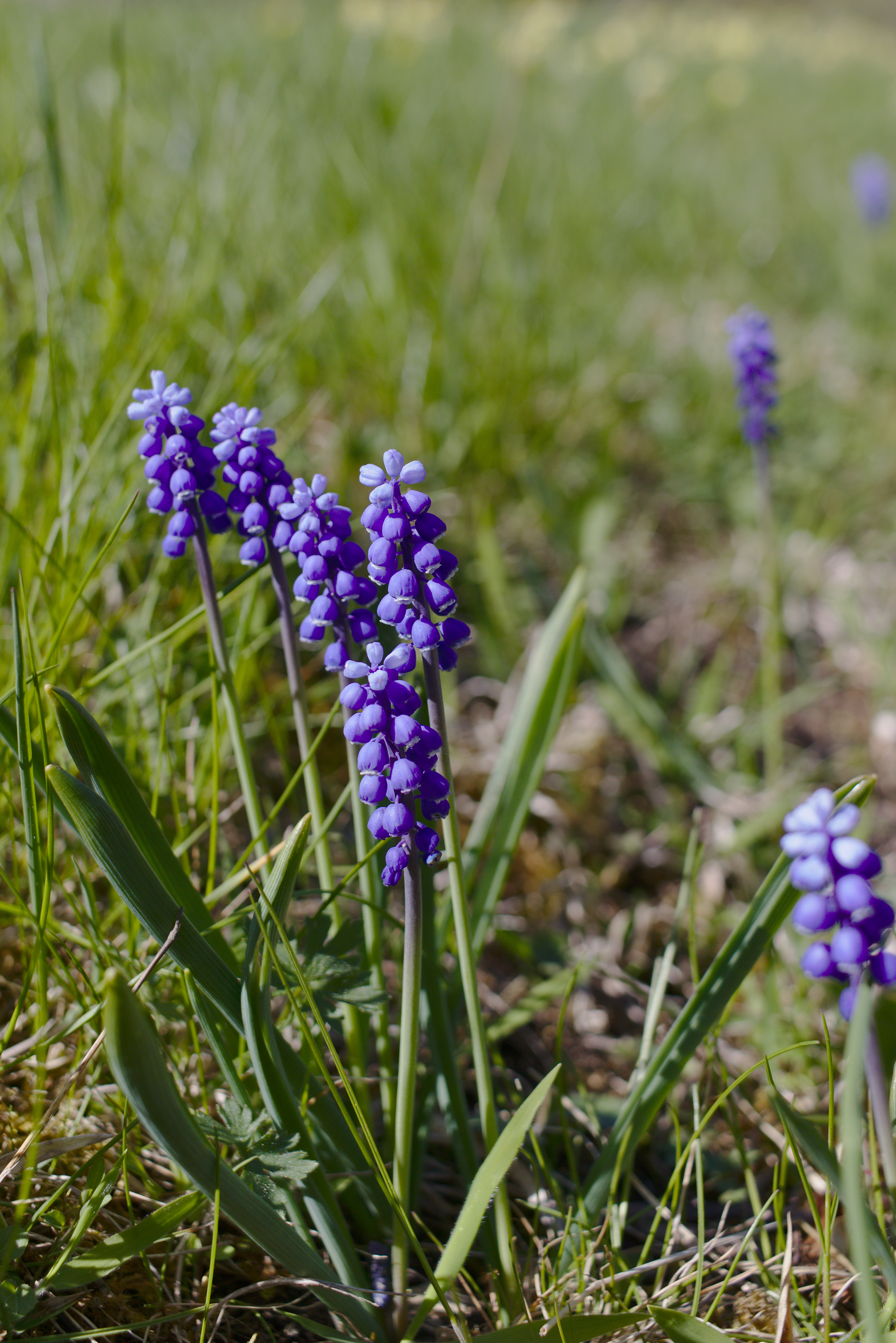 Common grape hyazinth, location: Swabian Jura, (near Neidlingen, Landkreis Esslingen, Baden-Württemberg)